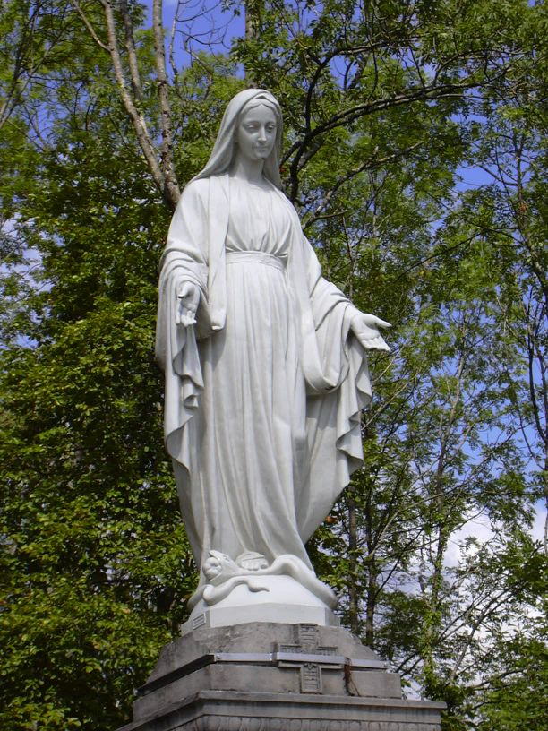 Statue of Virgin Mary in memory of the hostages in Colombey-les-deux-églises (Haute-Marne, France).